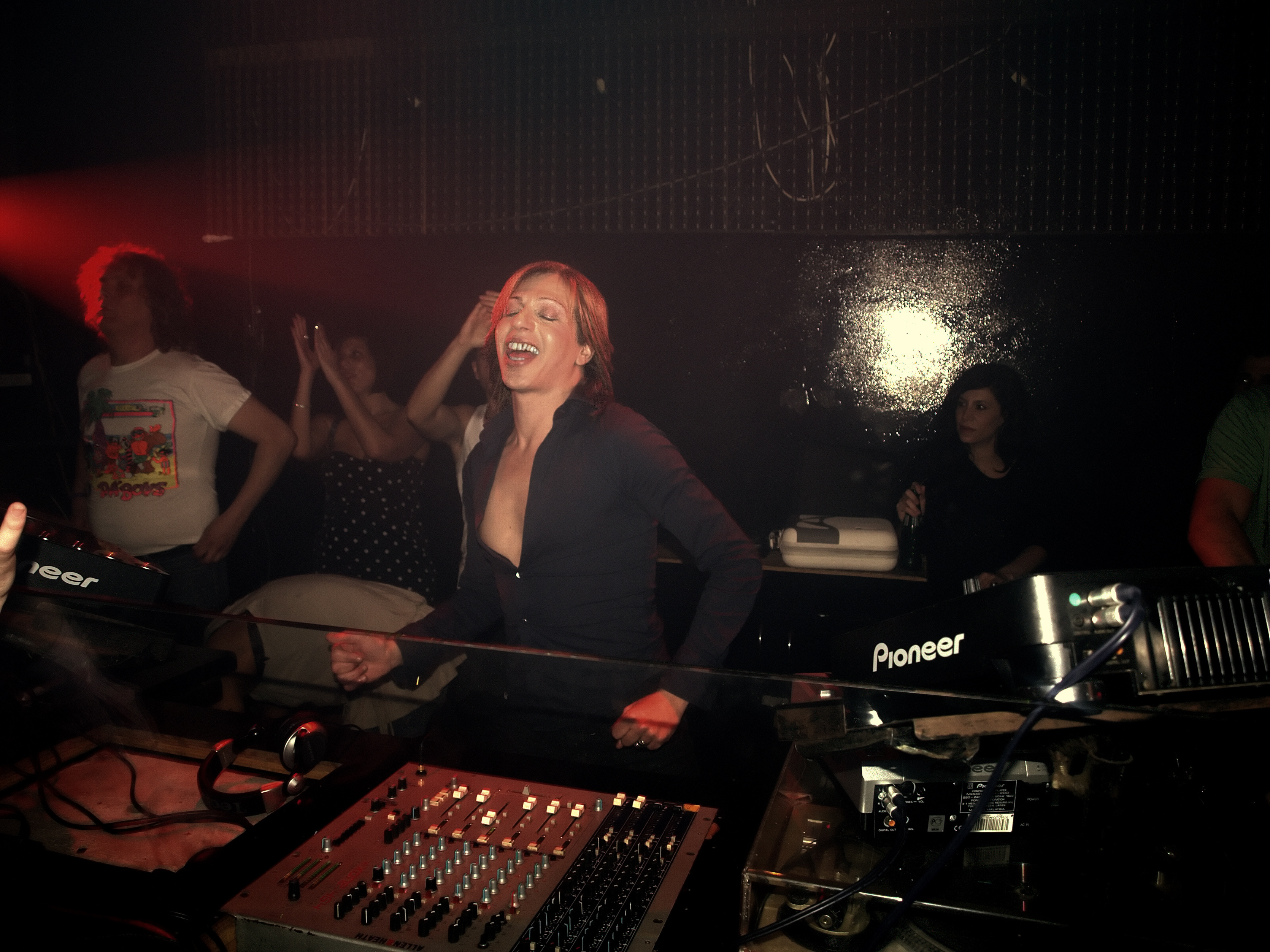 Israeli deejay Offer Nissim spinning at "Tel Aviv Forever" held at gay nightclub TLV venue in Tel Aviv, Israel.